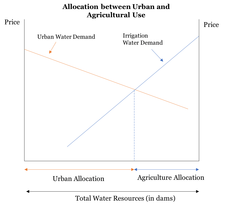 Water resource allocation between urban and agricultural use